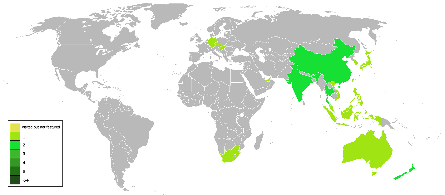 This is map showing countries that been visited in the show The Amazing Race Asia. Those countries are in green.